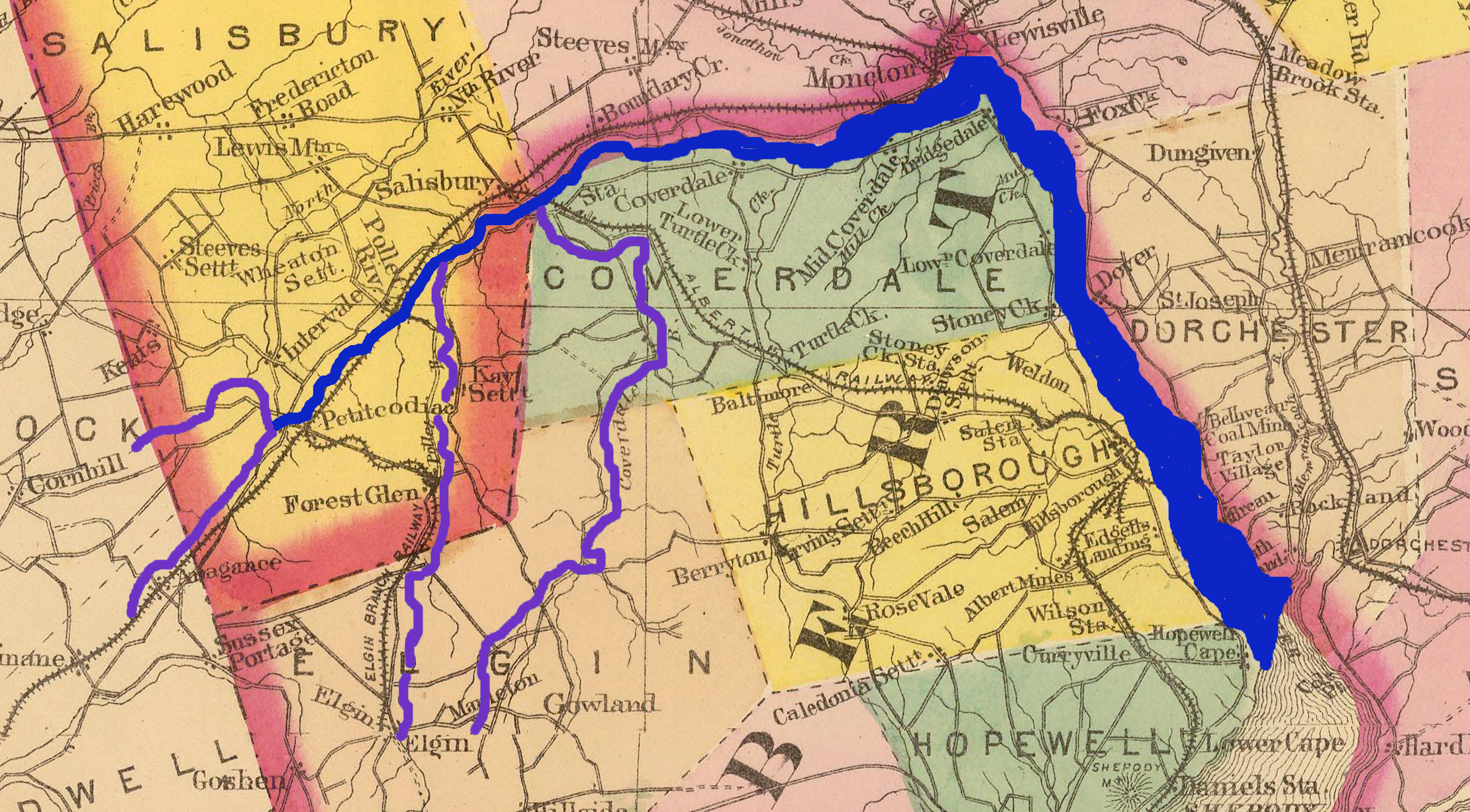 A map of the Petitcodiac River and its surroundings, highlighted in dark blue. Light blue indicates its four major tributaries: Anagance River, Little River, North River, and Pollett River.